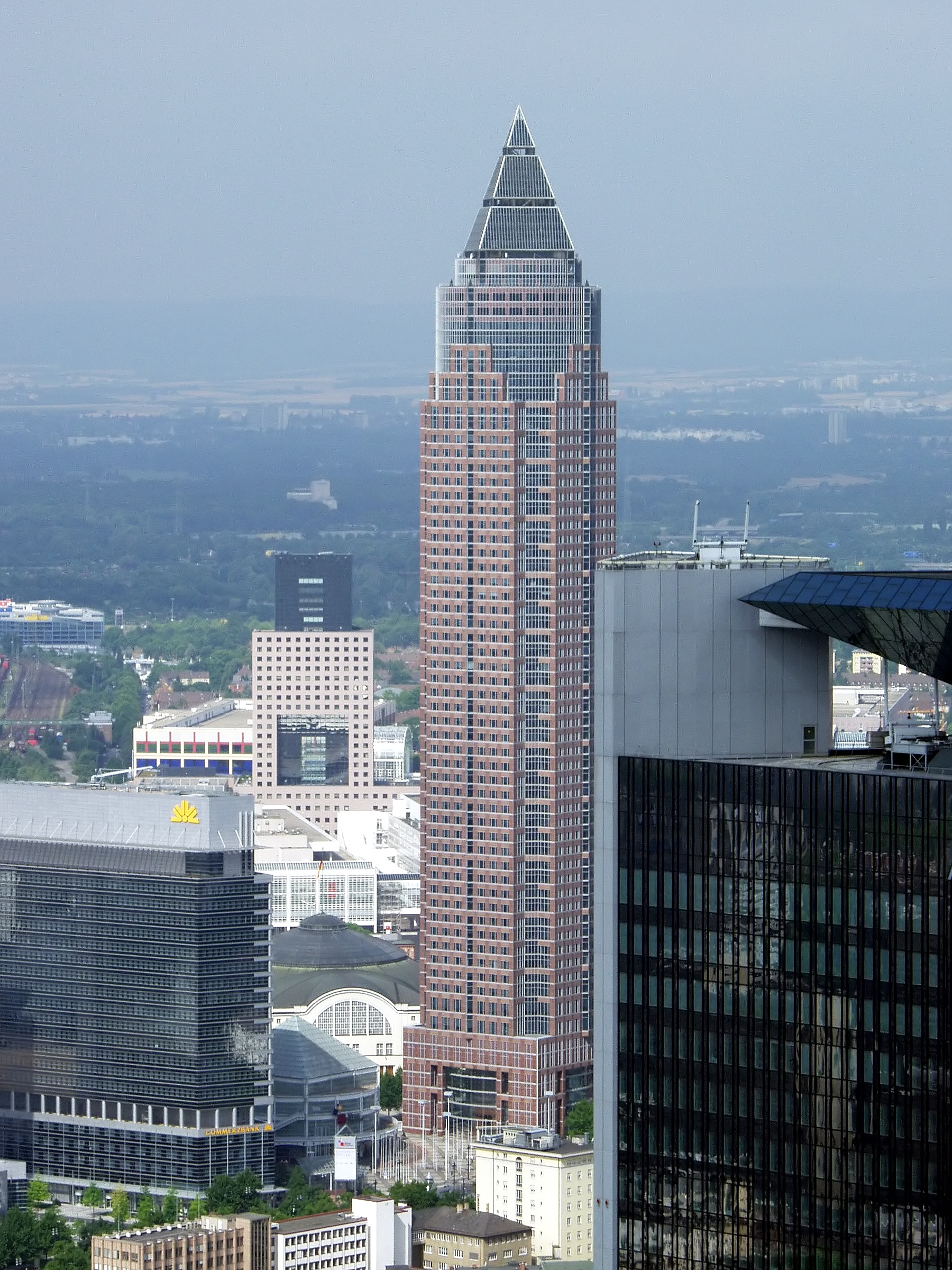 Frankfurt (Main) – Fair trade tower - from roof of Maintower